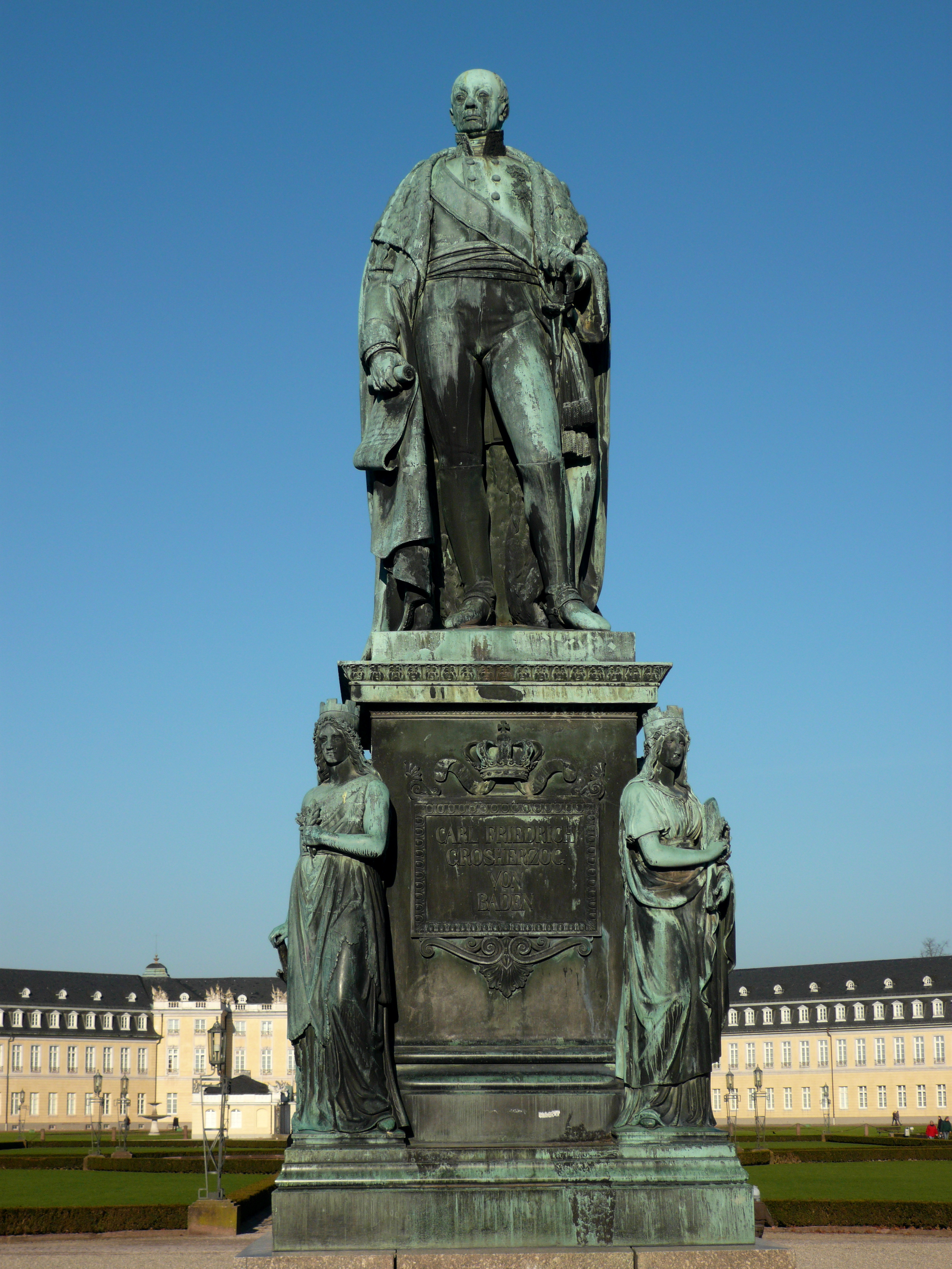 Statue of Carl Friedrich (1728-1811), Grand Duke of Baden, in front of Karlsruhe castle